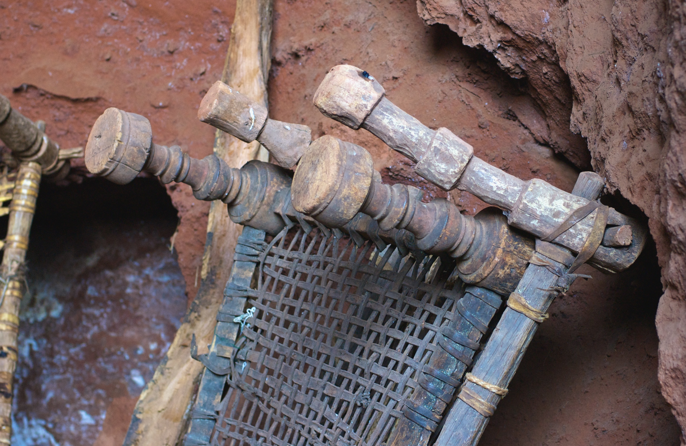 When I was walking in the passageways that separate the exterior of Bet Abba Libanos from the rock out of which the church was carved, I came across several bedframes leaning against one of the rock walls. I have a feeling these beds were made according to a very old design. I'm sure I've seen photos of similar furniture from Egyptian tombs, though the ancient Egyptian examples were probably more refined and ornate. However, I like the rough simplicity we see here. While the two bed frames are built according to the same general design, the level and method of execution differ considerably. The lower pair of legs look as if they have been carved on a lathe, albeit one powered by a foot pedal. I'm no expert on woodworking, but I suspect it would be exceedingly difficult to achieve those shapes without a lathe. In contrast, it does look like the upper pair of legs, which are thinner and lighter colored, were carved by hand. Tool marks are clearly visible, and they suggest the shafts were shaped by hand tools without the benefit of a lathe. I'd love to know how old they are, and whether they are ever used. Both sets of frames and legs have a lovely patina and signs of use over a long period of time.